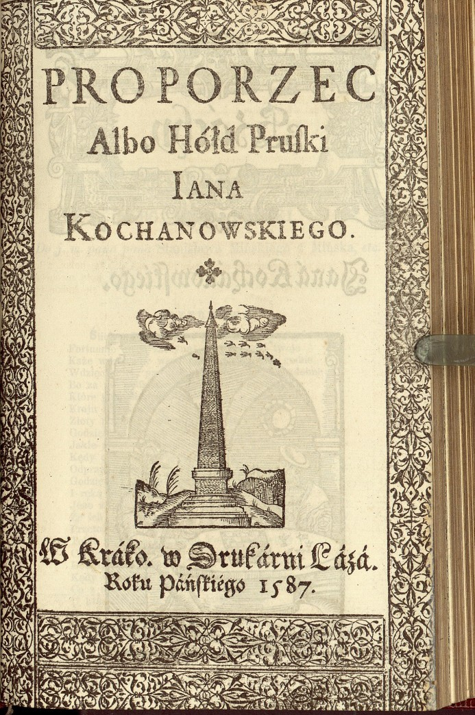 book